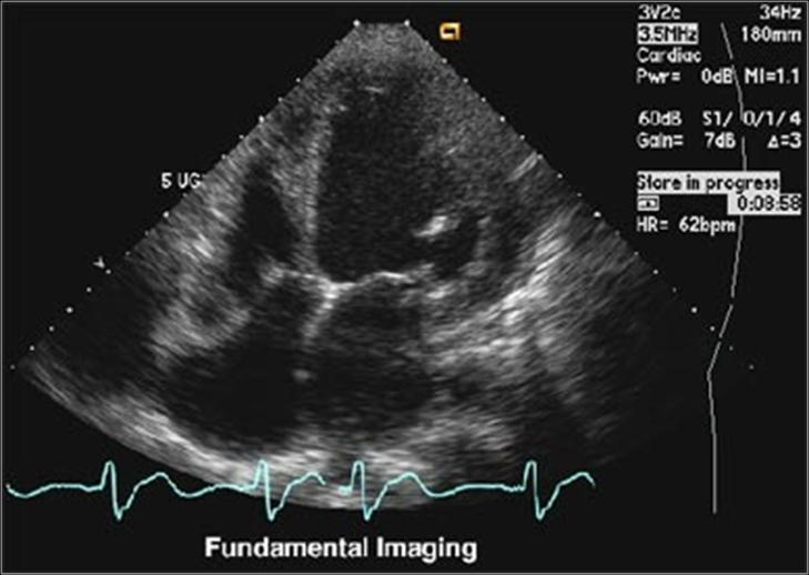 ultrasound, tissue harmonic imaging, 4-chamber-view